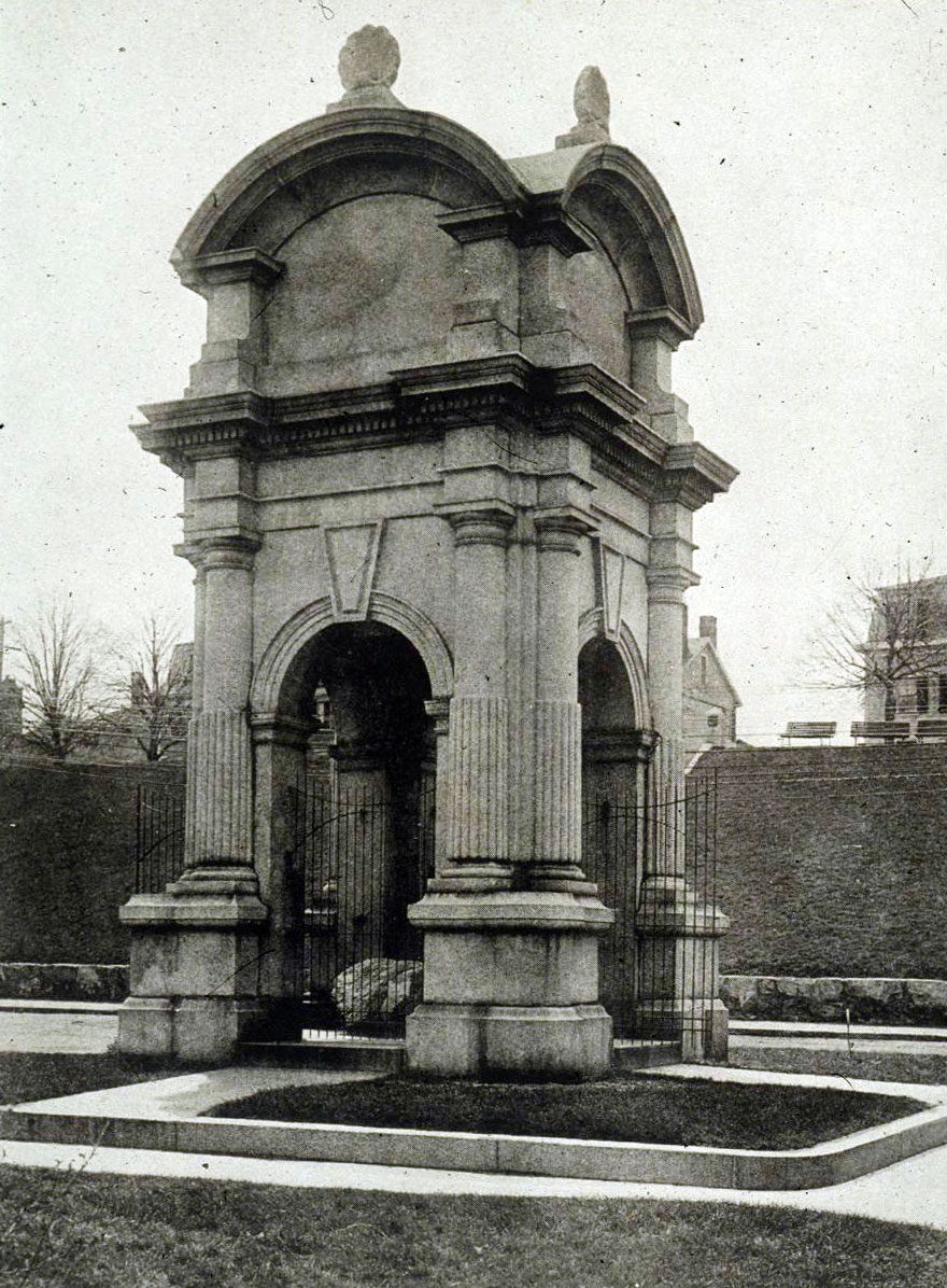 The old Plymouth Rock monument that existed from 1867 to 1920/21.